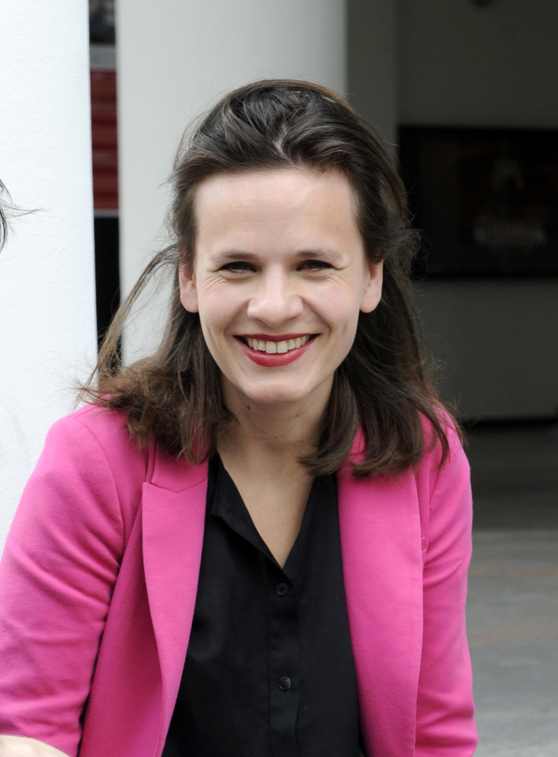 Maria Magdalena Ludewig